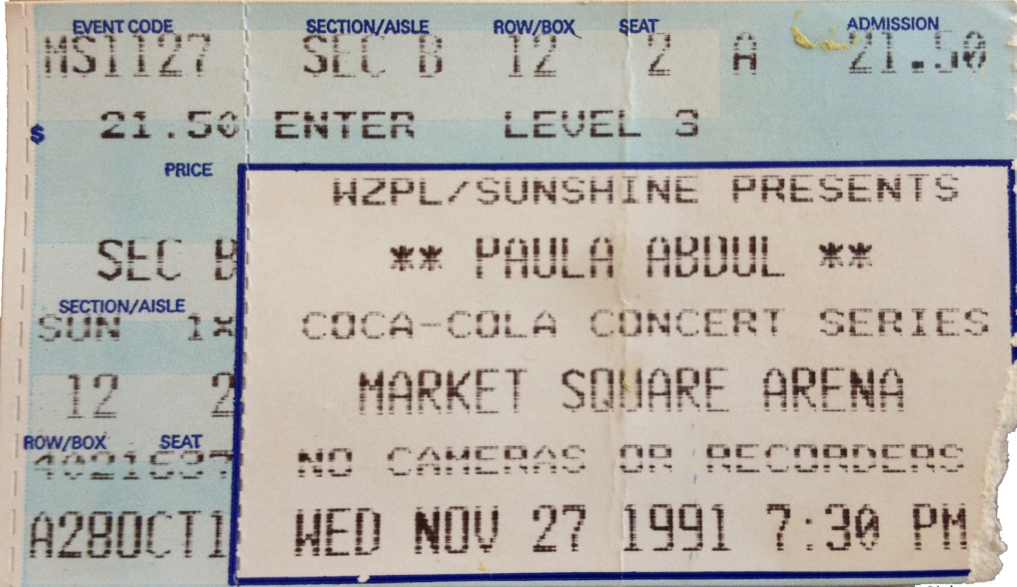 Paula Abdul concert ticket, 1991 November 27, 1991 Market Square Arena, Indianapolis, Indiana